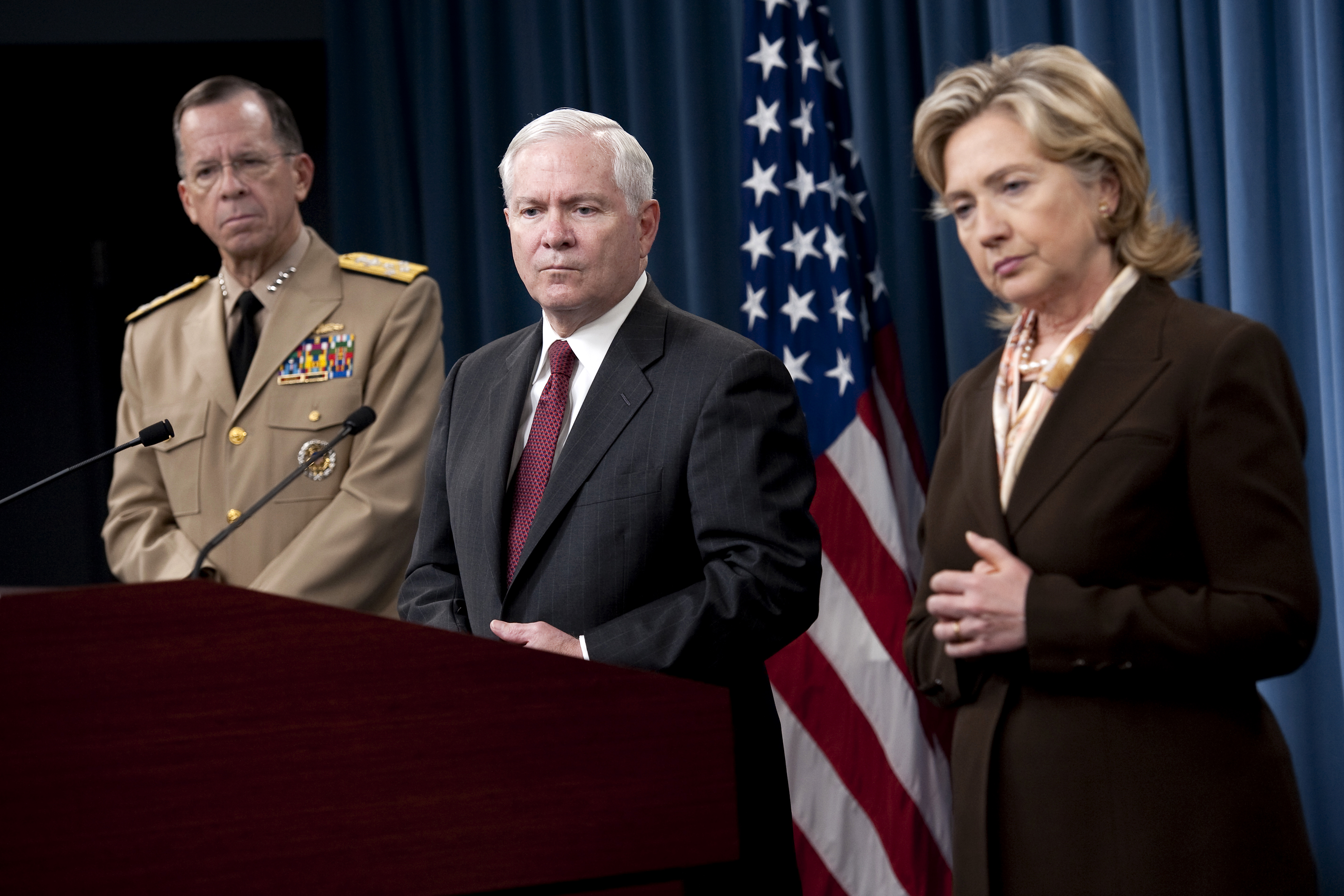 Secretary of State Hillary Rodham Clinton, right, Defense Secretary Robert M. Gates, center and Navy Adm. Mike Mullen, chairman of the Joint Chiefs of Staff, left, conduct a press conference on the new Nuclear Posture Review at the Pentagon, April 6, 2010.